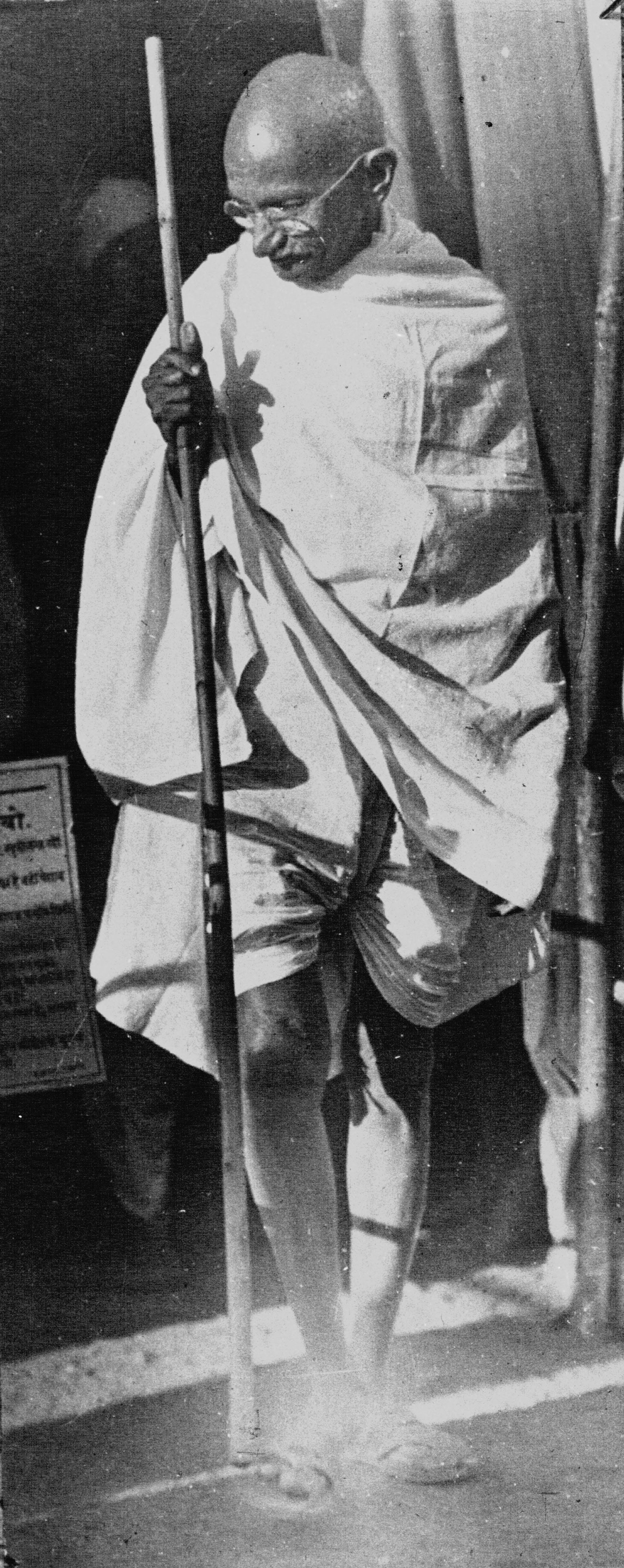 New Delhi: Arrival of Mahatma Gandhi, who comes to meet in the Congress created by the recent convention.